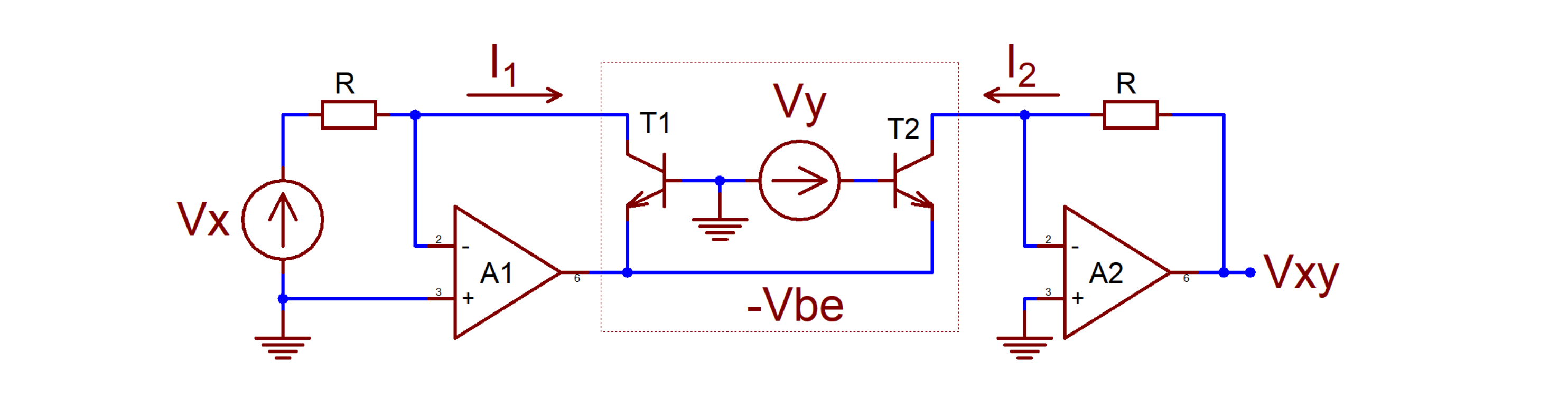 Log-antilog VCA employing a current mirror (pair of transistors)